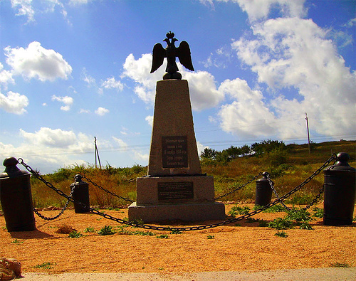 Kiev Hussars Memorial.